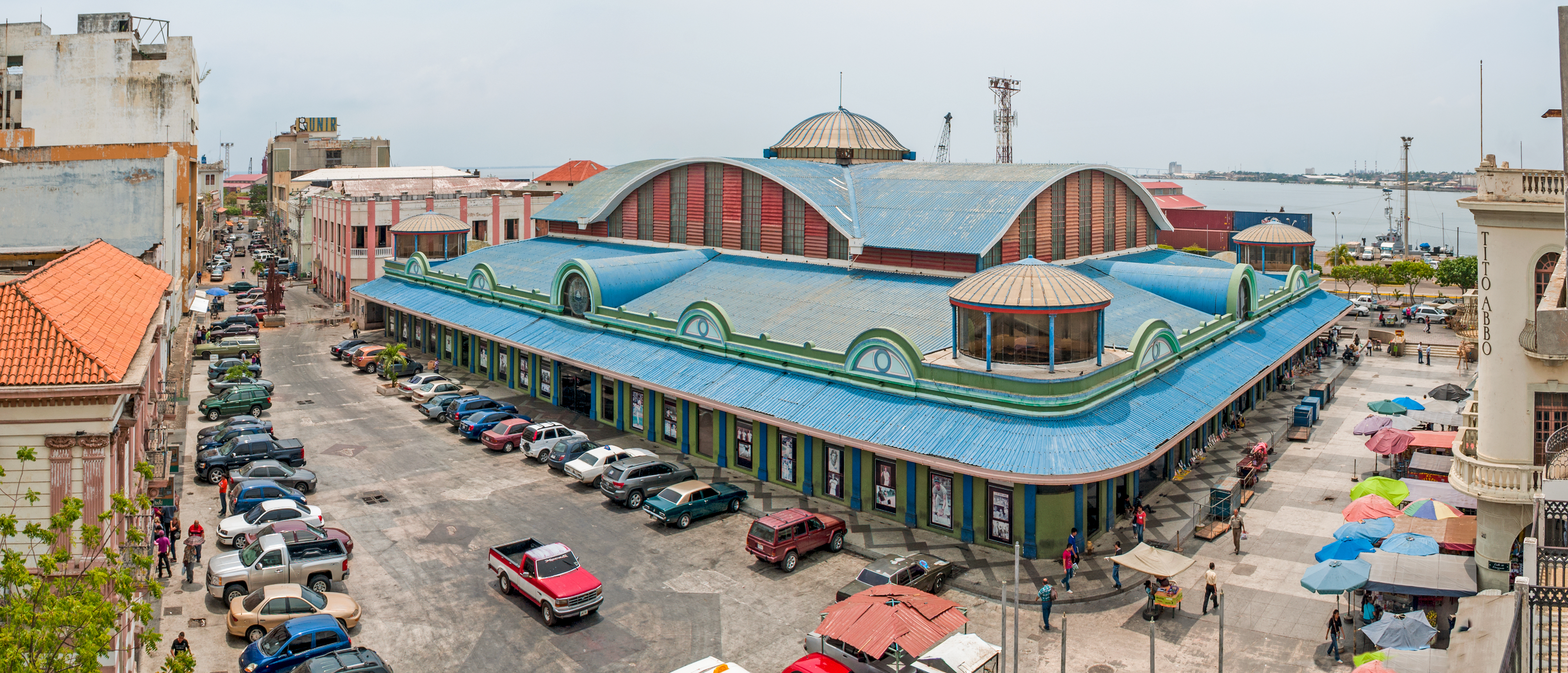 Art Center Maracaibo Lia Bermudez